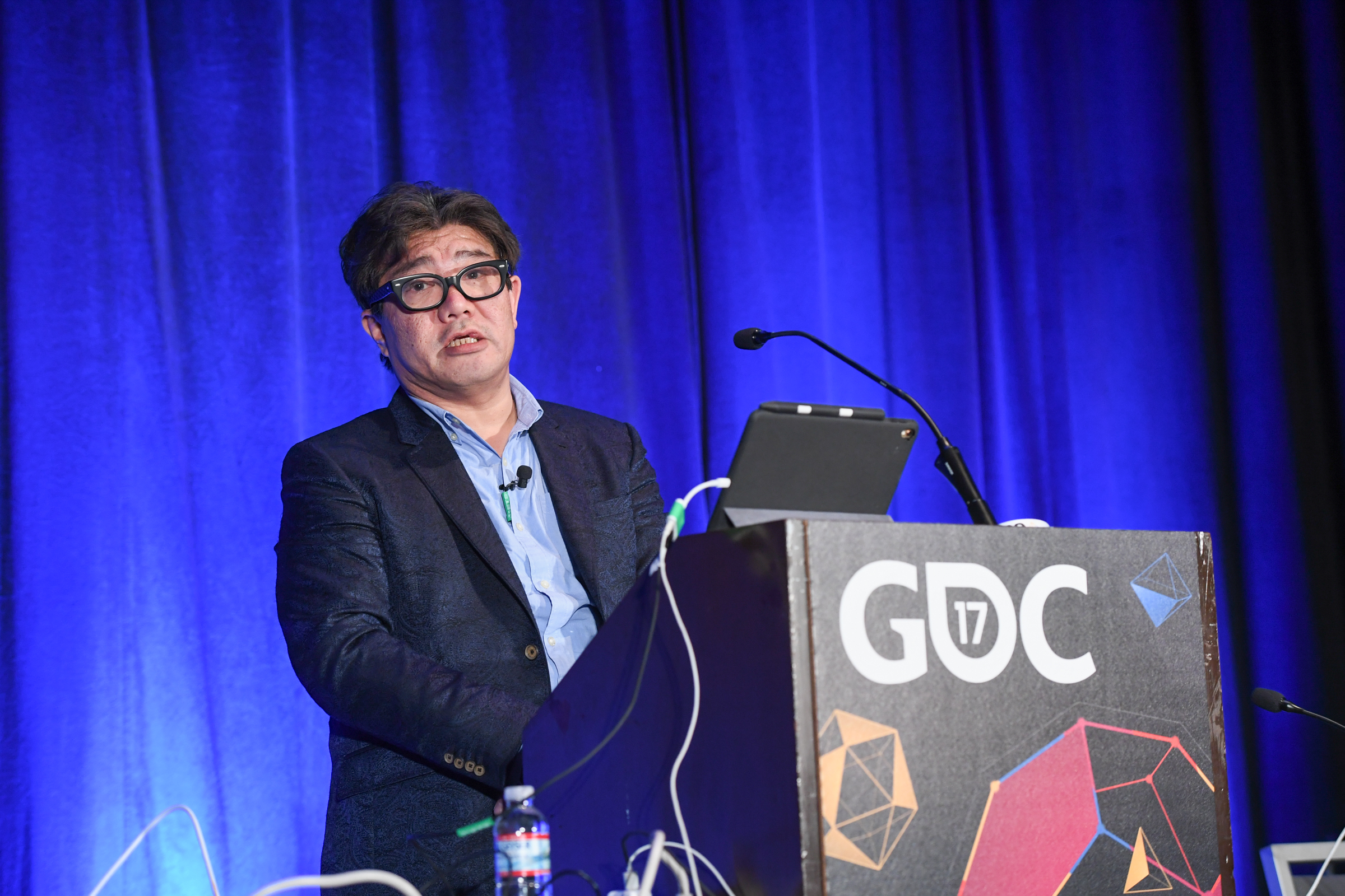 Yoot Saito gives a classic post-mortem on the game Seaman at the 2017 Game Developers Conference.